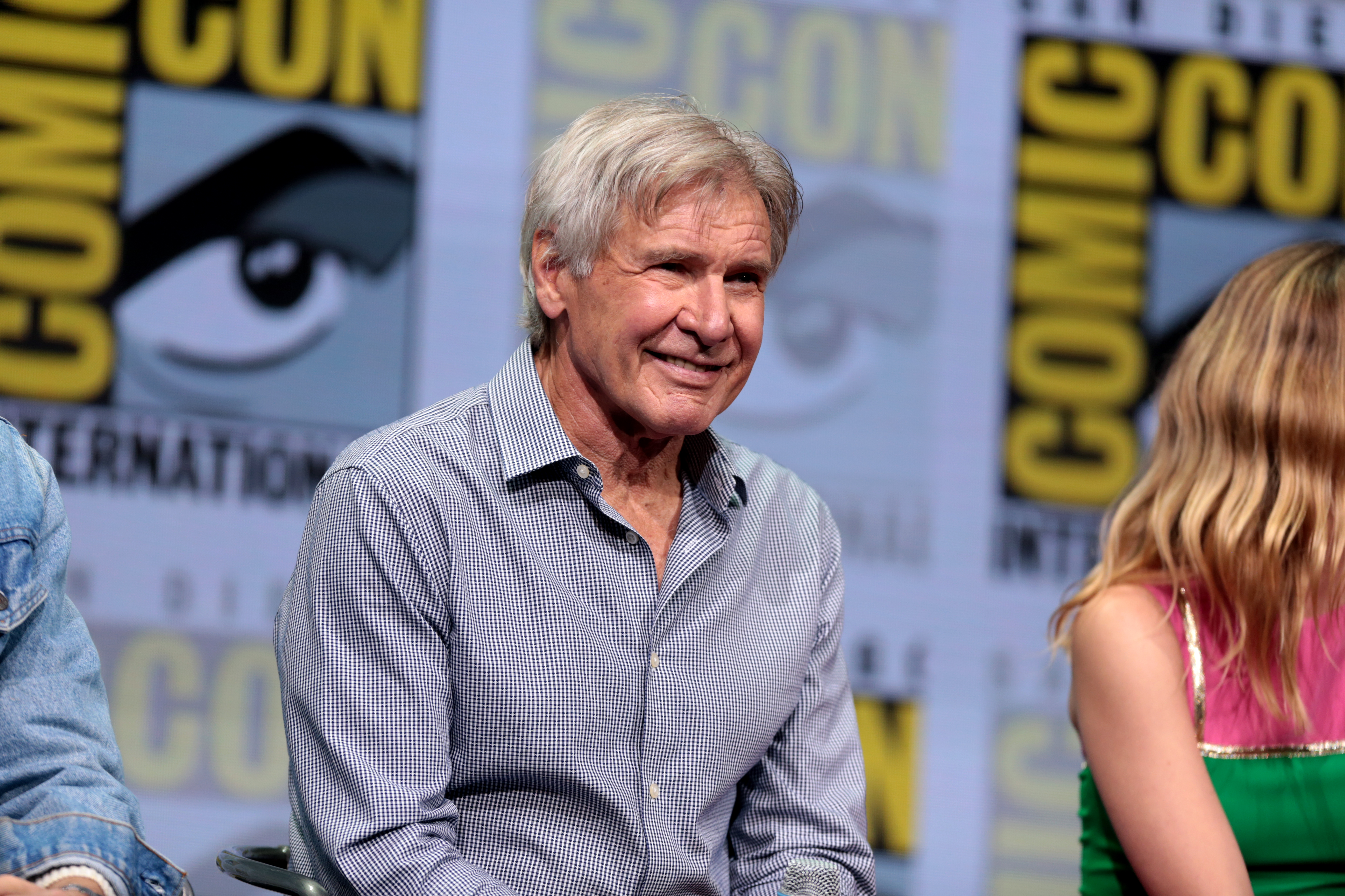 Harrison Ford speaking at the 2017 San Diego Comic Con International, for "Blade Runner 2049", at the San Diego Convention Center in San Diego, California.